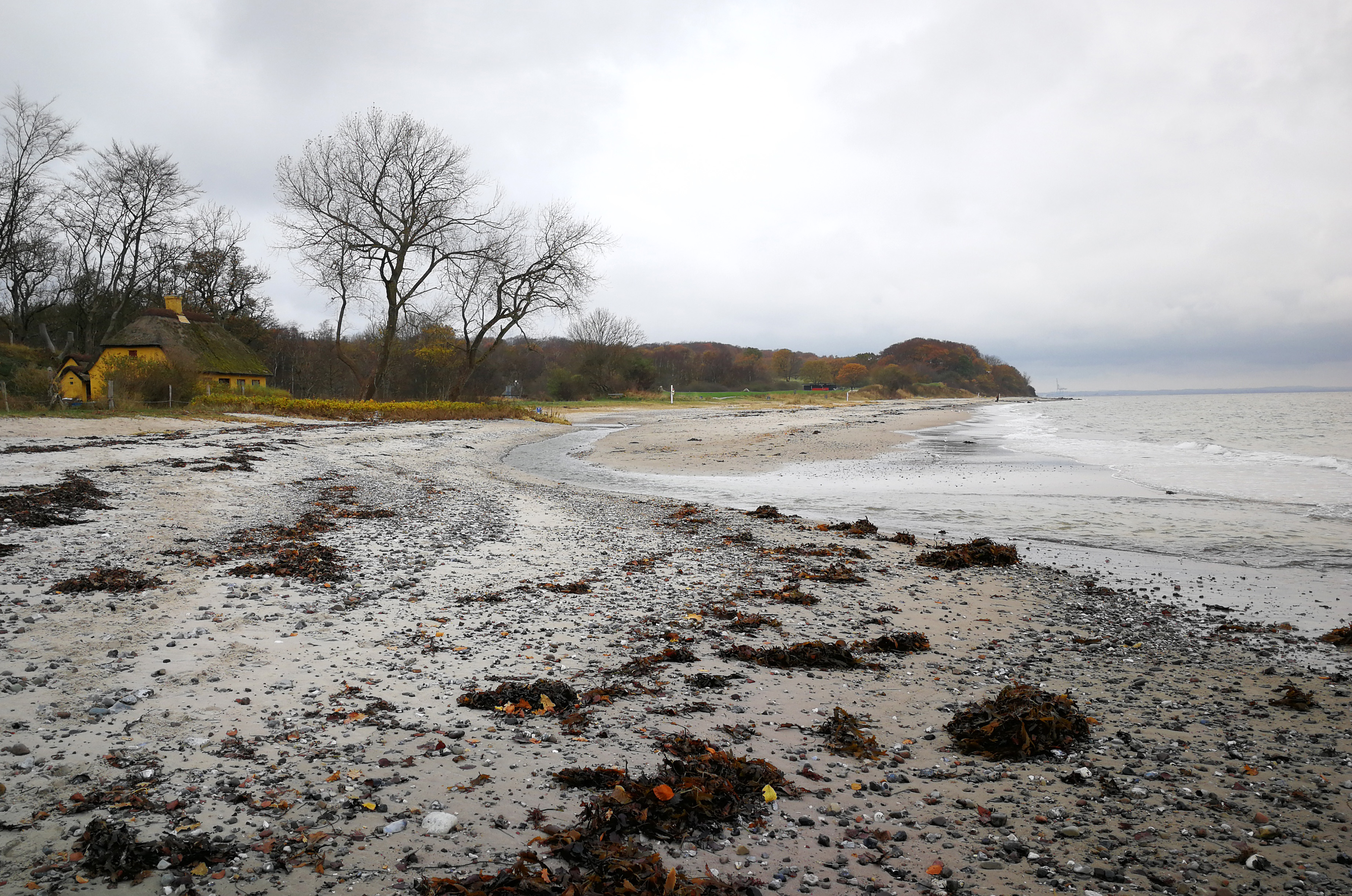 Giber Ås udløb ved Fiskerhuset, Moesgaard Strand